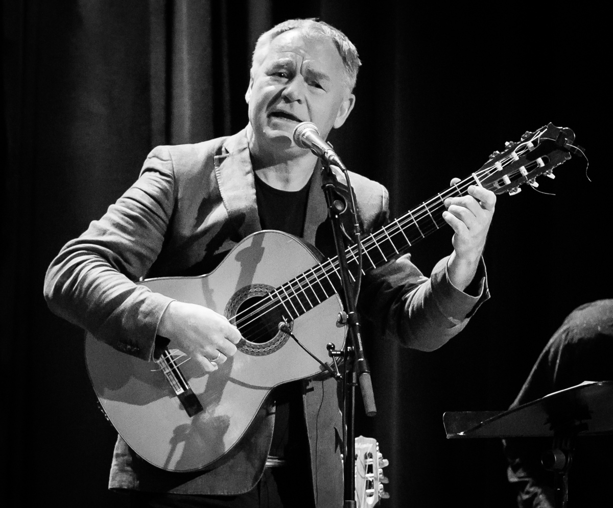 Rudolf Nilsens songs and poetry, performed at the stage of Cosmopolite. The concert took place on 10. December 2016 in Oslo. Lineup: Jon Arne Corell (guitar / vocal) Kari Svendsen (guitar / vocal) Lars Klevstrand (guitar / vocal) Steinar Ofsdal (flute) Carl Morten Iversen (double bass)